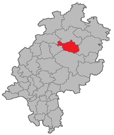 Map of the district court Schwalmstadt in Hesse